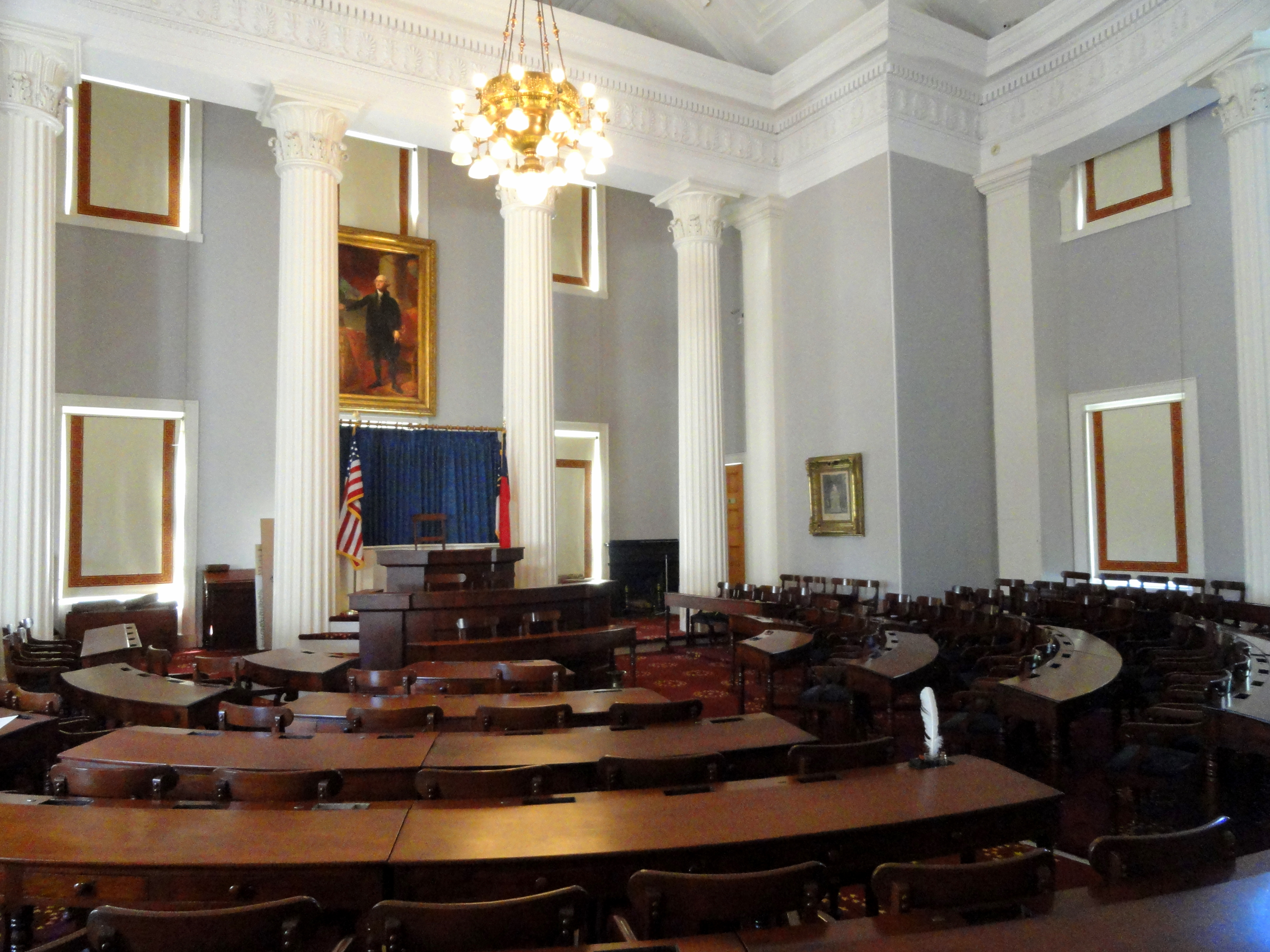 North Carolina State Capitol, Raleigh, North Carolina, North Carolina, USA.